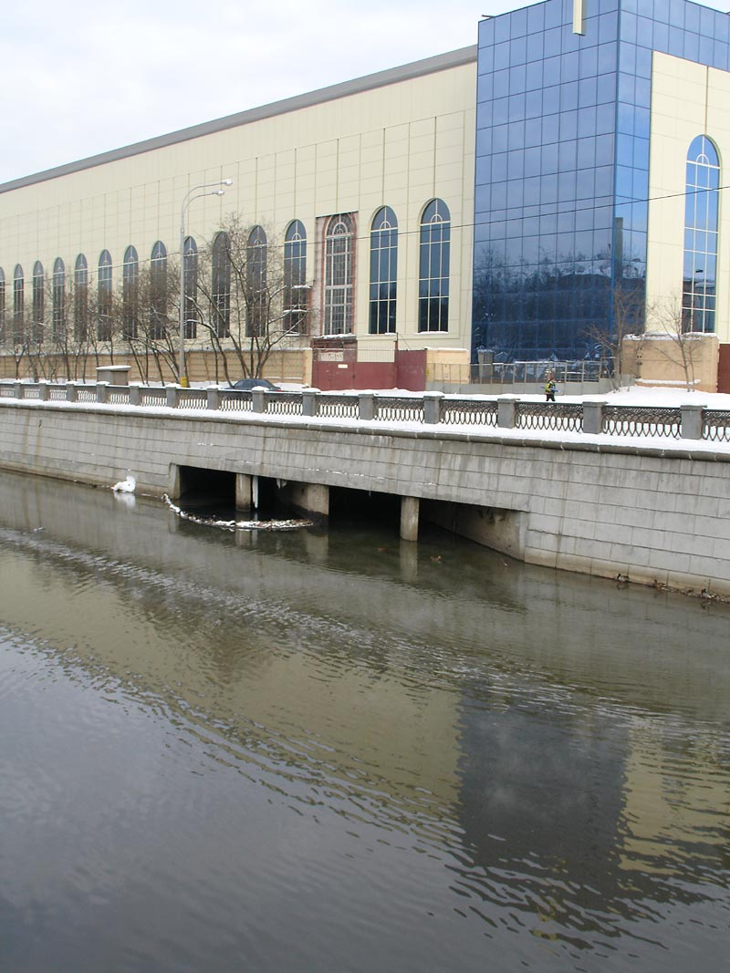 Moscow, Inlet of former Khapilovka River into Yauza River